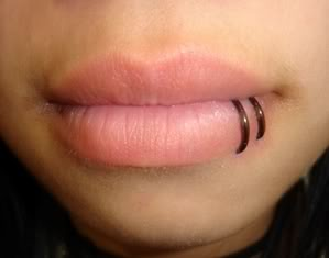 Double lip piercing (spider bites)